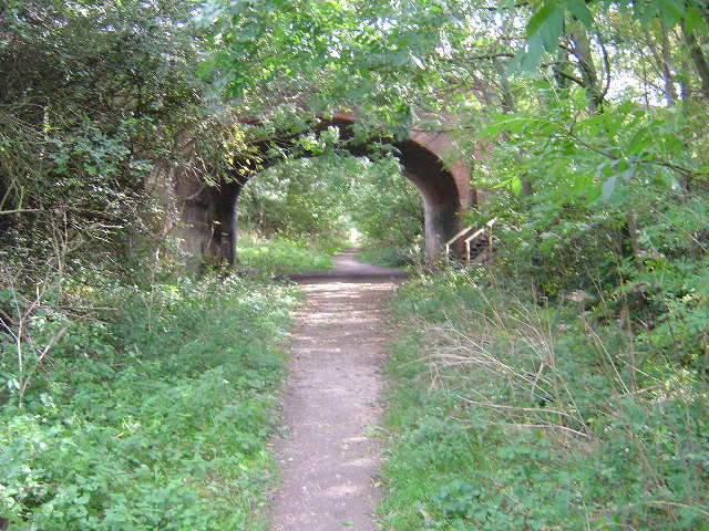 Hudson Way near Beverley, East Riding of Yorkshire, England.The Hudson Way is the old Beverley to York Railway line - closed in the Beeching cuts. This bridge is where the A164 to Leconfield crosses the path.